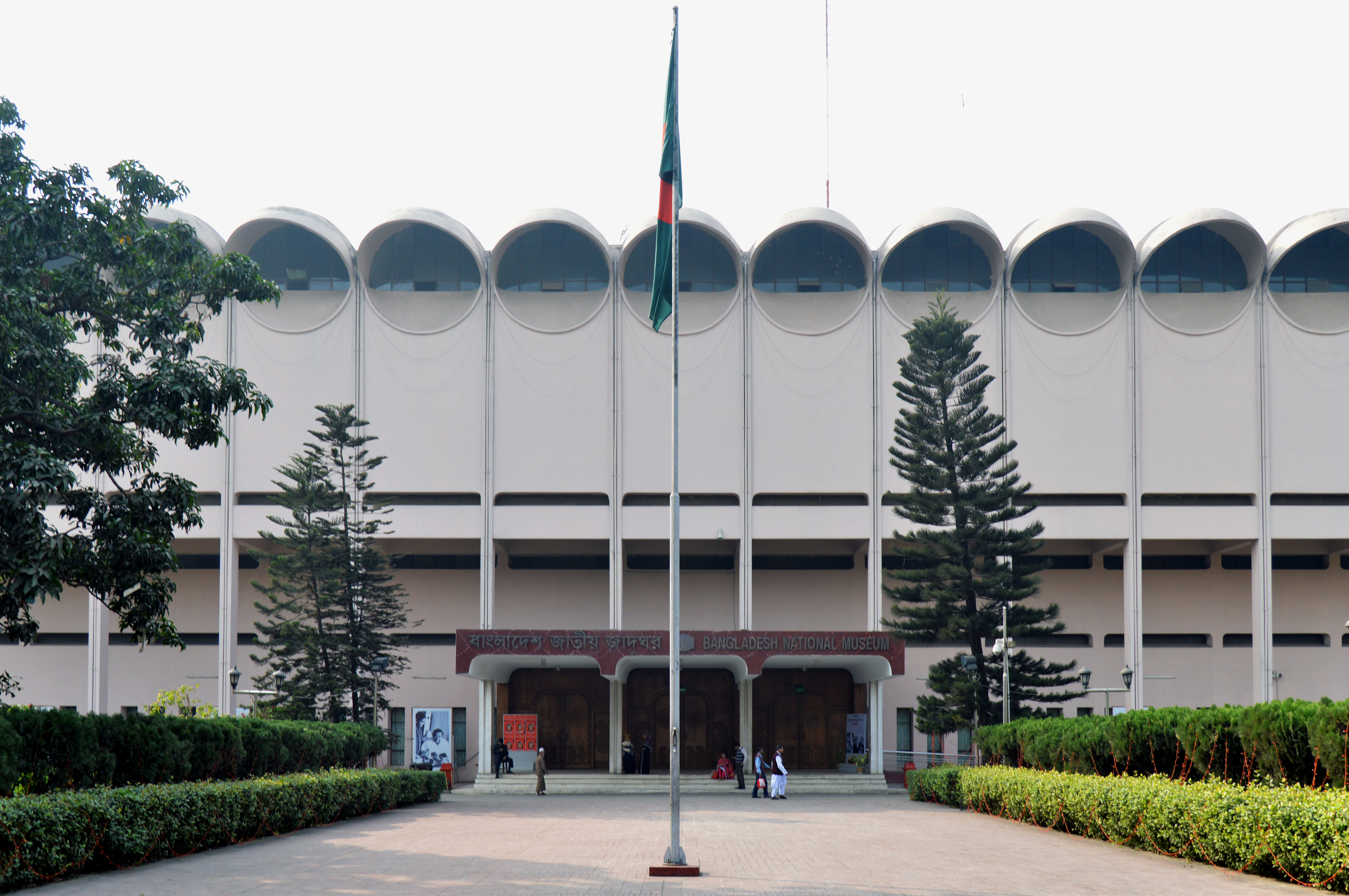 Bangladesh National Museum, Front view